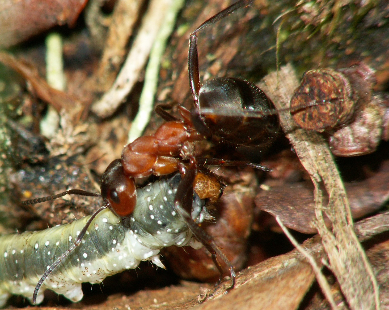 Formica rufawith caterpillar, Wolfheze the Netherlands